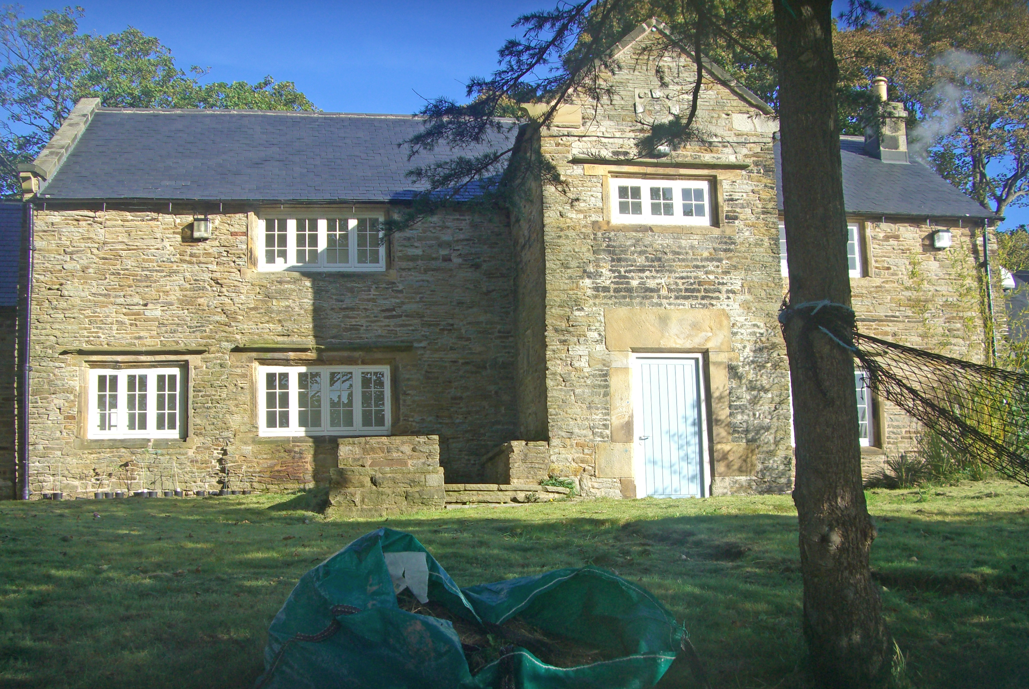 The Herdings, an ancient grade II listed building in the Gleadless Valley in Sheffield, England